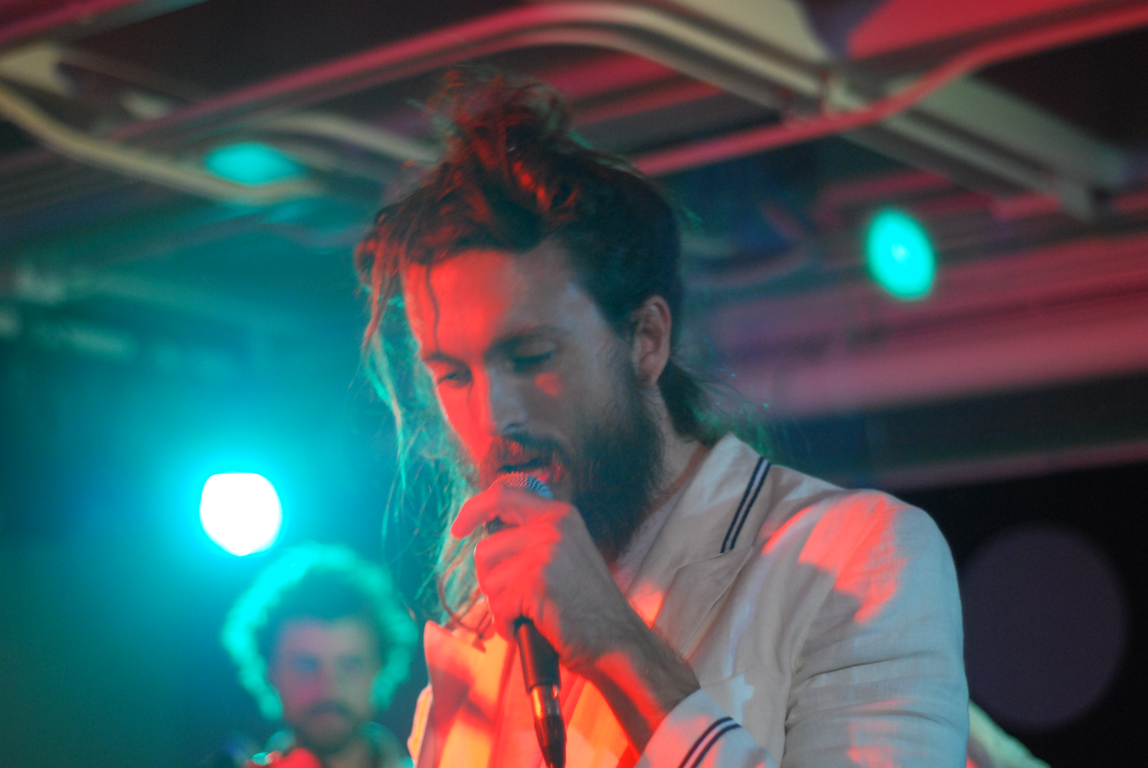 Edward Sharpe & The Magnetic Zeroes